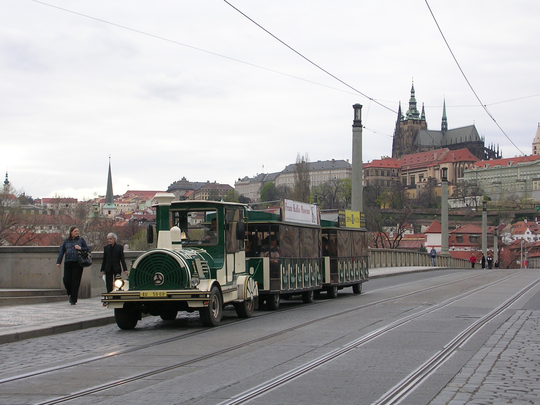 Prague, the Czech Republic.